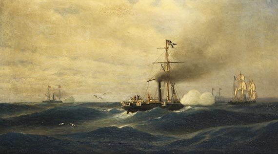 "Seegefecht zwischen Kanonenboot "SMS Meteor" und dem französischen Aviso "Bouvet" vor Havanna am 12. November 1870" Painting showing the Battle of Havana during the Franco-Prussian War 1870/71.